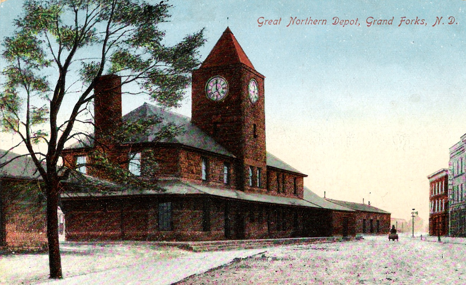 Great Northern Train Depot in Grand Forks, North Dakota, in 1913. This building, located at 625 DeMers Avenue, was a passenger depot. (Another GN building, located about 1,000 feet to the west, was a freight-only depot, the Great Northern Freight Warehouse and Depot.)